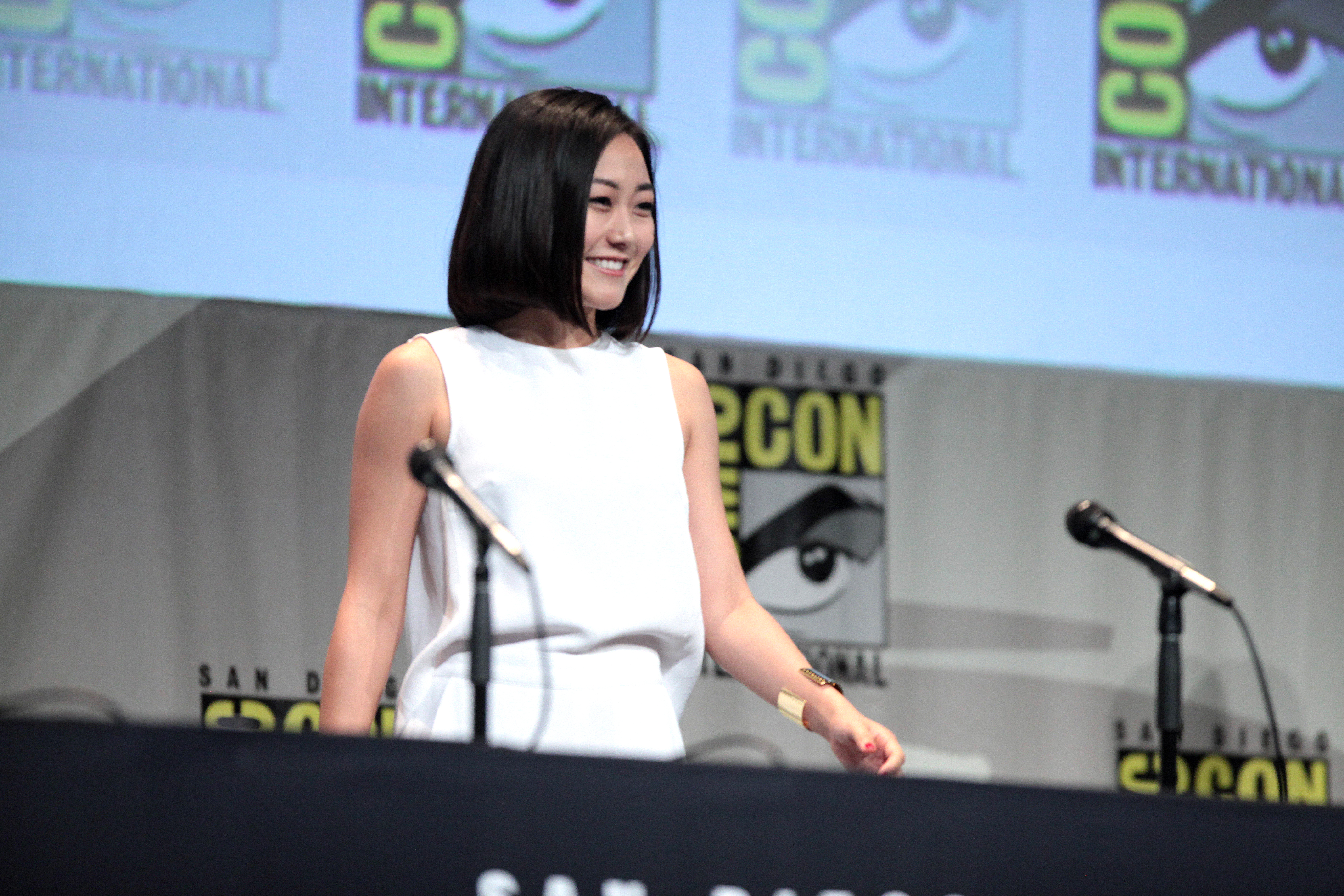 Karen Fukuhara on Suicide Squard panel, San Diego Comic Con (2015)